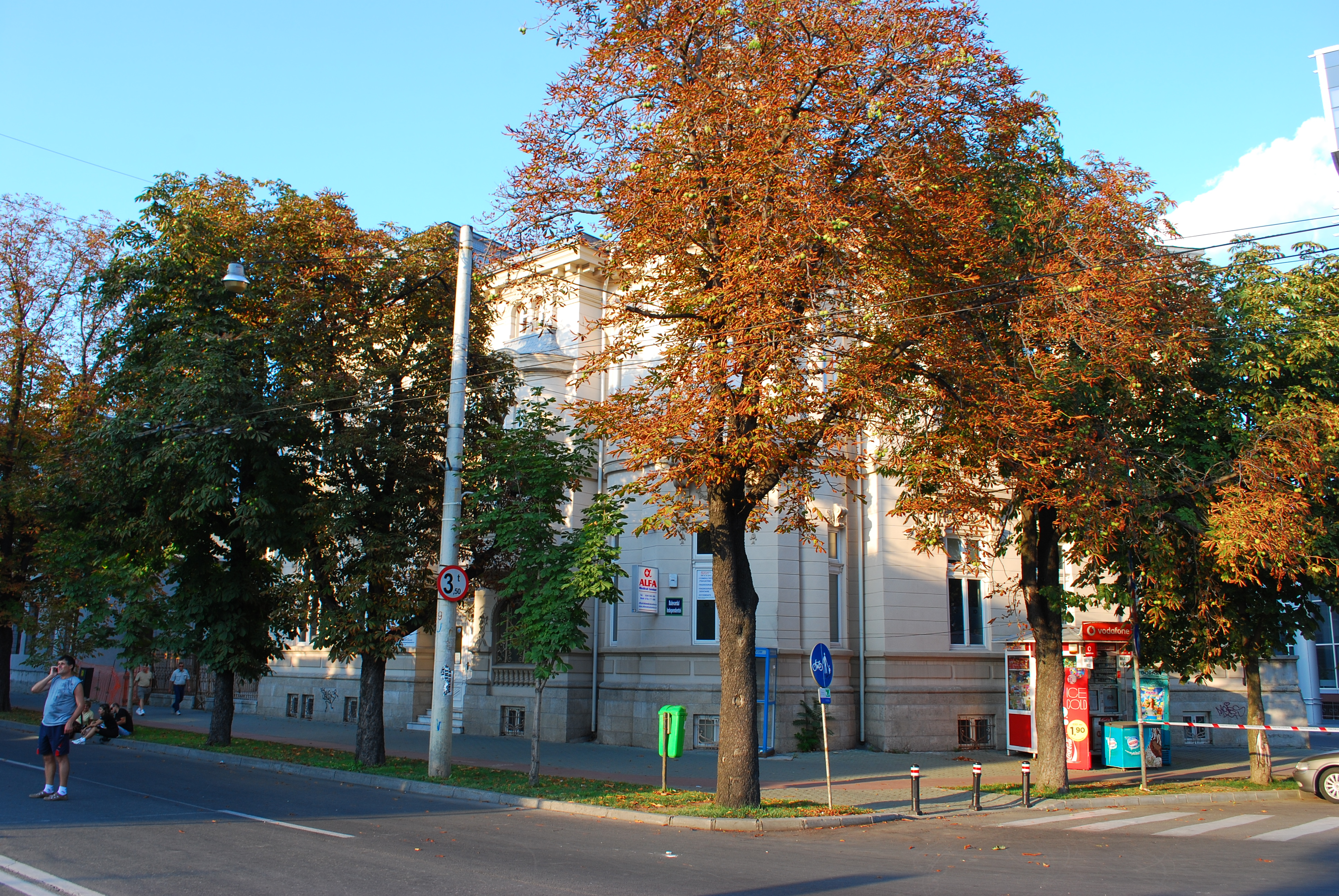 Ghiţă Stoenescu house in Ploieşti, RomaniaRomână: Casa Ghiţă Stoenescu din Ploieşti, România